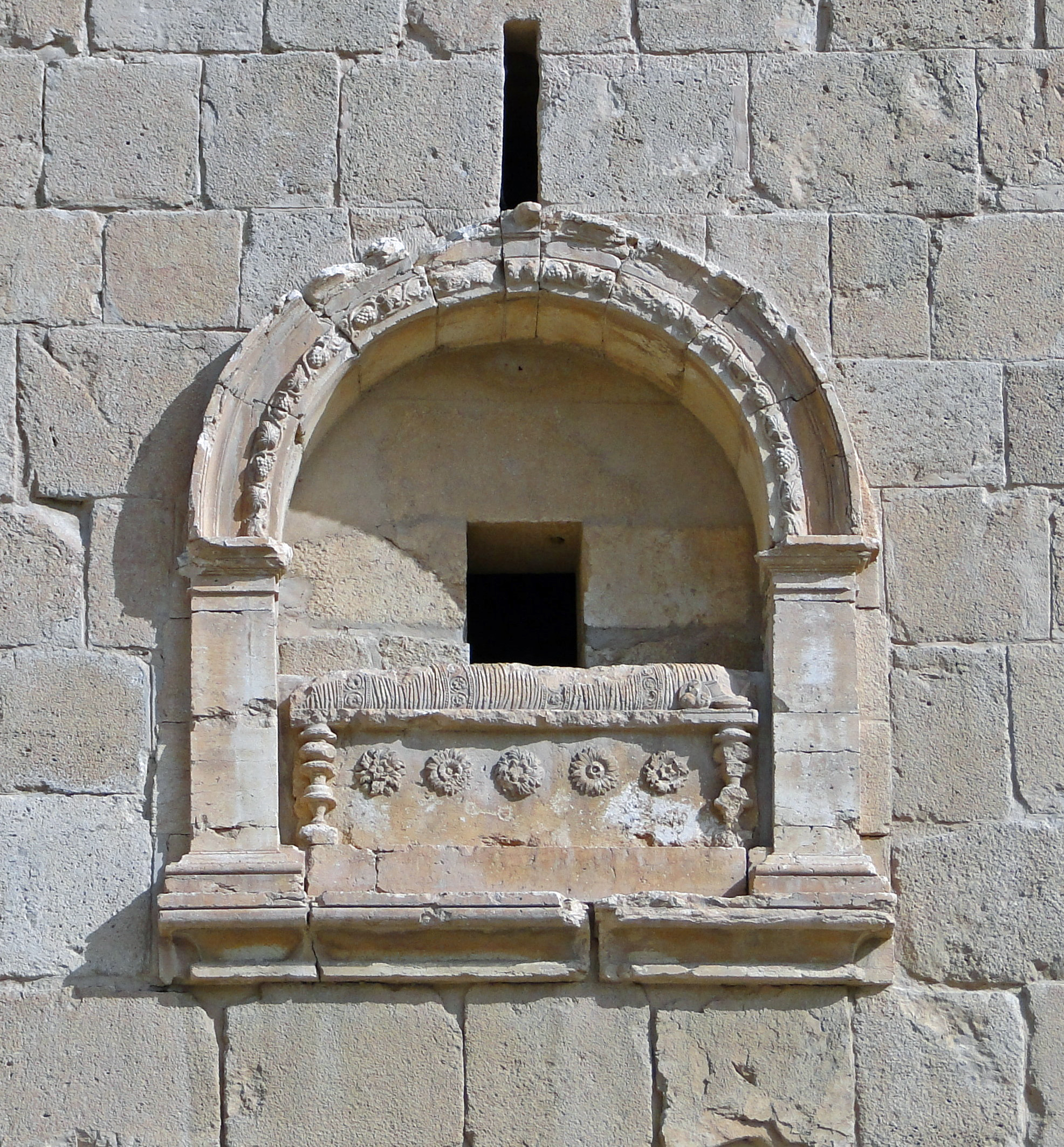 A balcony on the Elahbel tower tomb in Palmyra, Syria